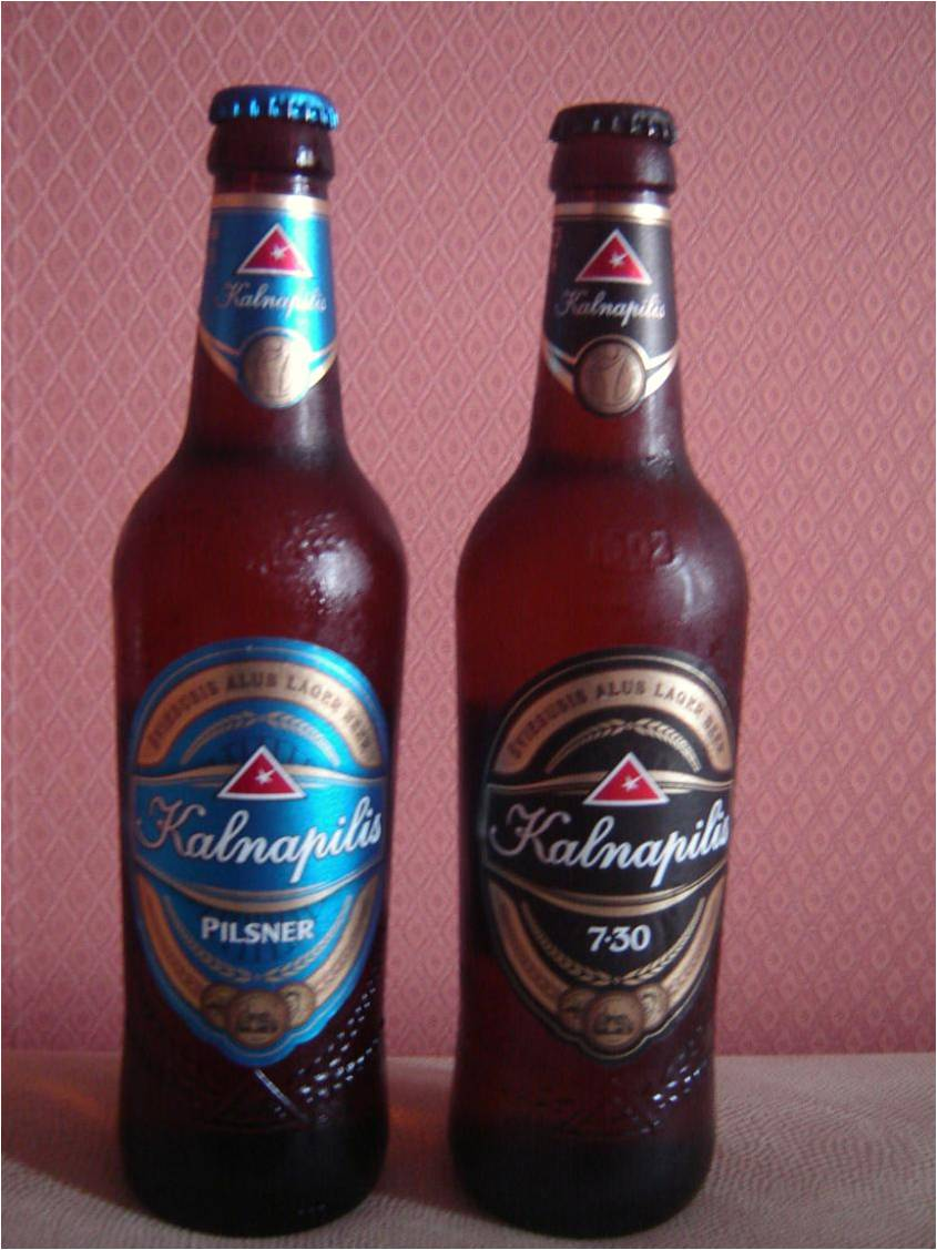 Bottles of beer brewed by Lithuanian brewery "Kalnapilis"